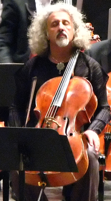 Mischa Maisky playing Brahms double concerto